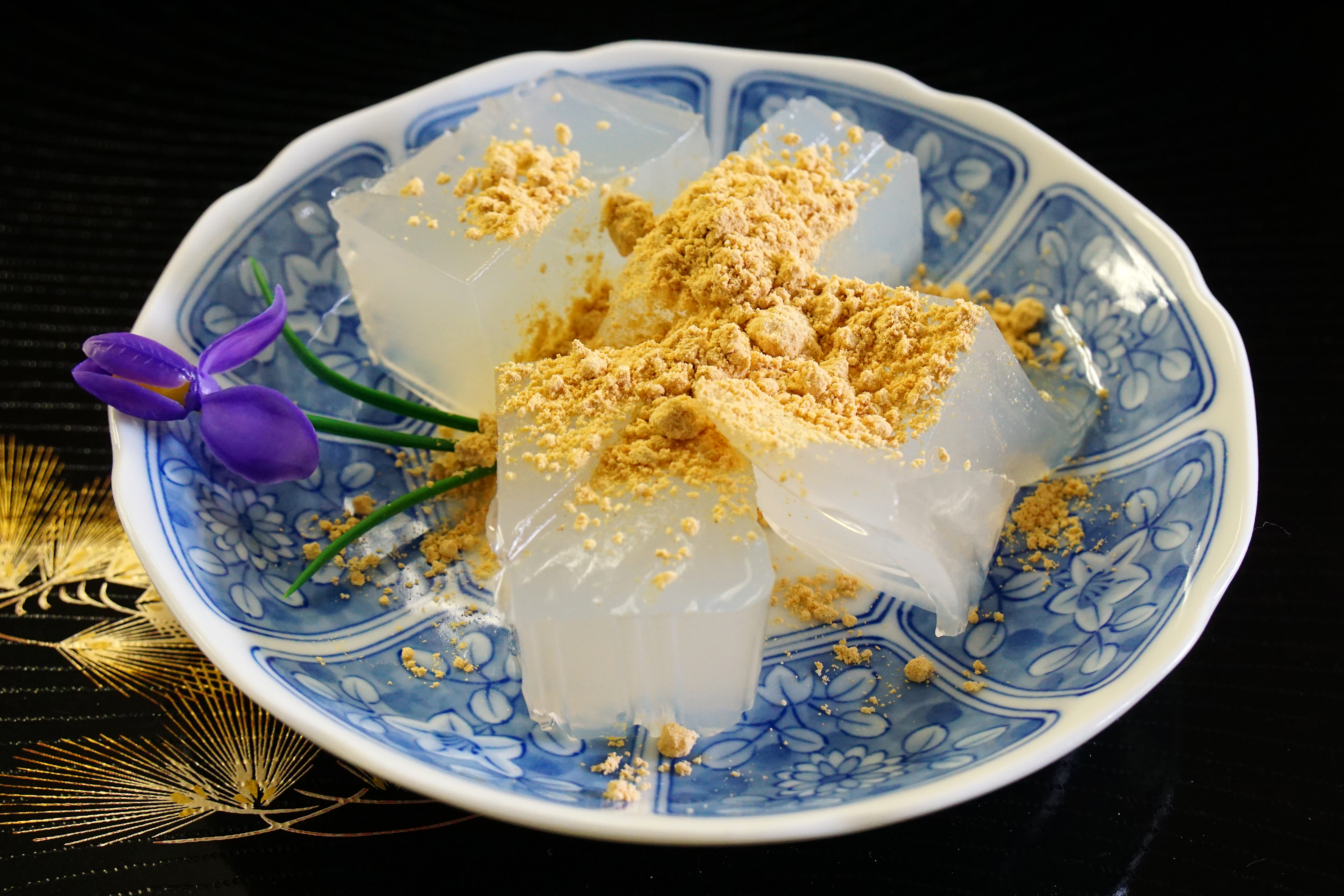 Kuzumochi at Yagyu Iris Garden in Nara, Nara prefecture, Japan